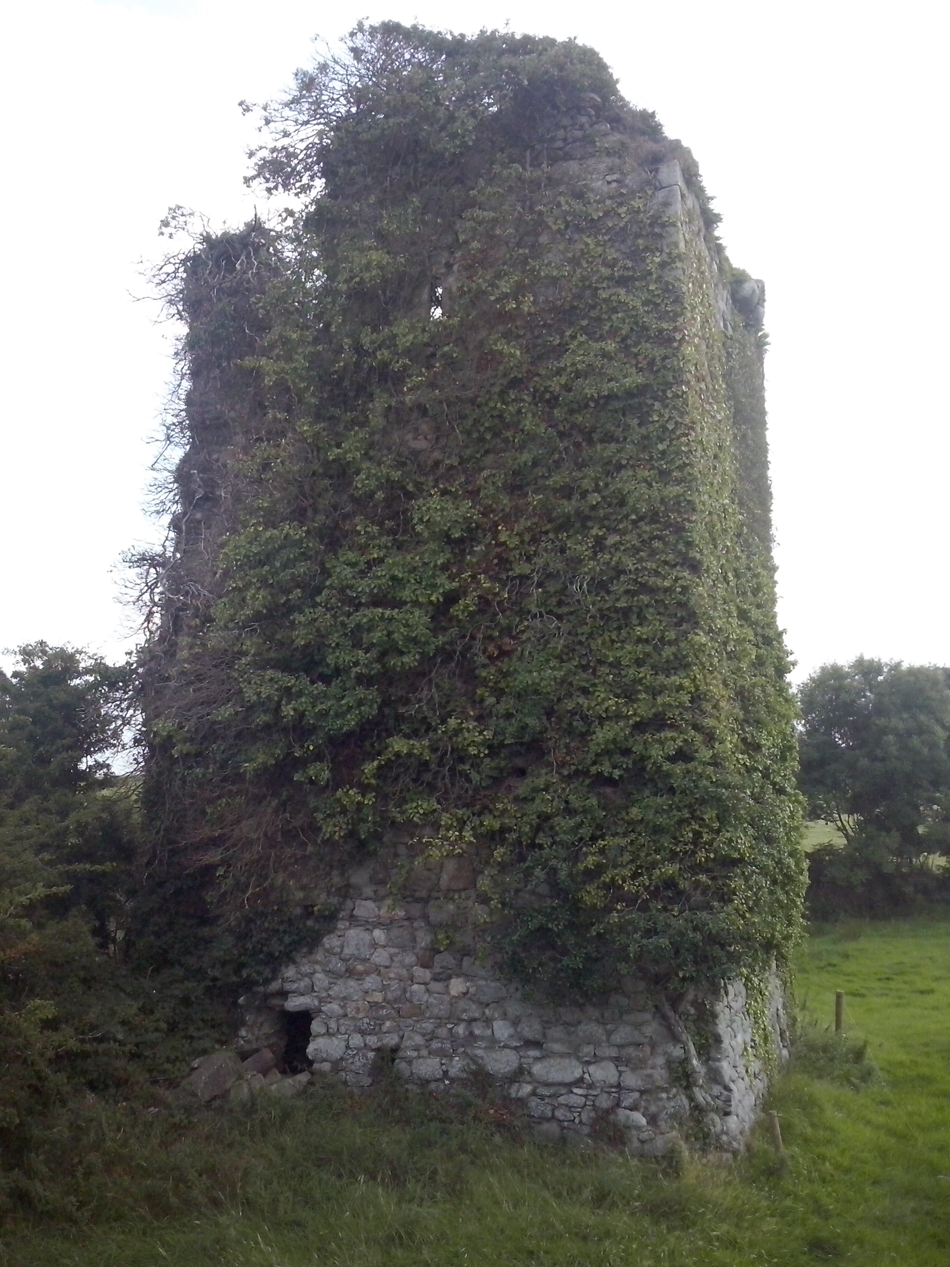 View of Tellarought castle tower house, from the bottom of St. Brigid's Churchyard, Terrerath, Co. Wexford, Ireland